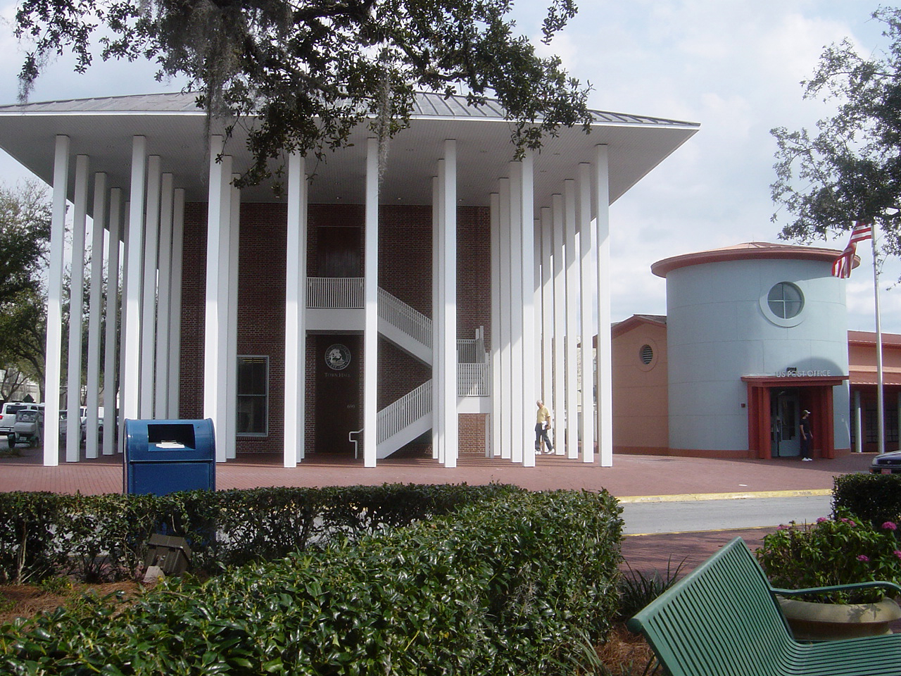 Town Hall and United States Post Office of Celebration, Florida, the city designed and planned by The Walt Disney Company. Photo taken by Bobak Ha'Eri. February 23, 2006. Please observe license and properly cite in use outside Wikipedia.